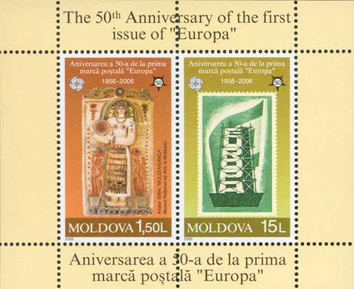 Stamp of Moldova